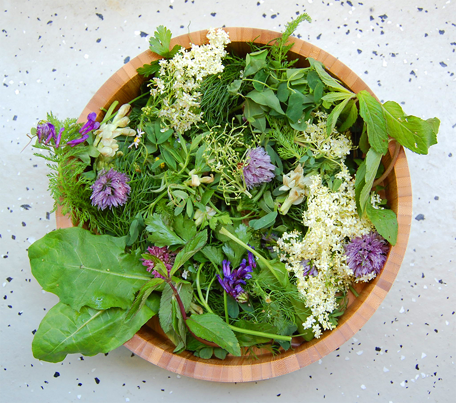 Bunch of edible wild herbs